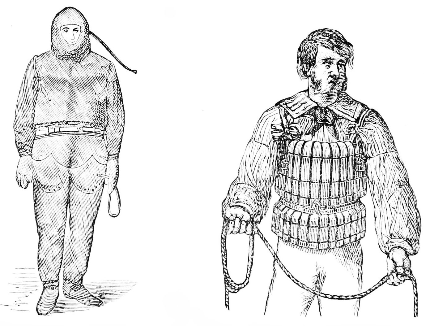 Life saving clothes and cork life belt